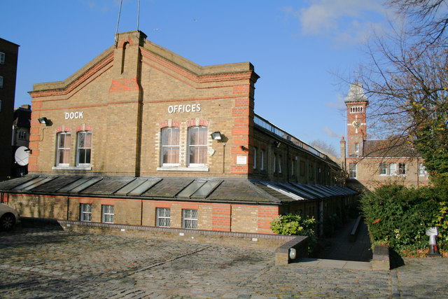 Dock Offices, Surrey Docks (2) This is a rear view of the extensive offices of the former Surrey Docks. The high build quality can be seen.